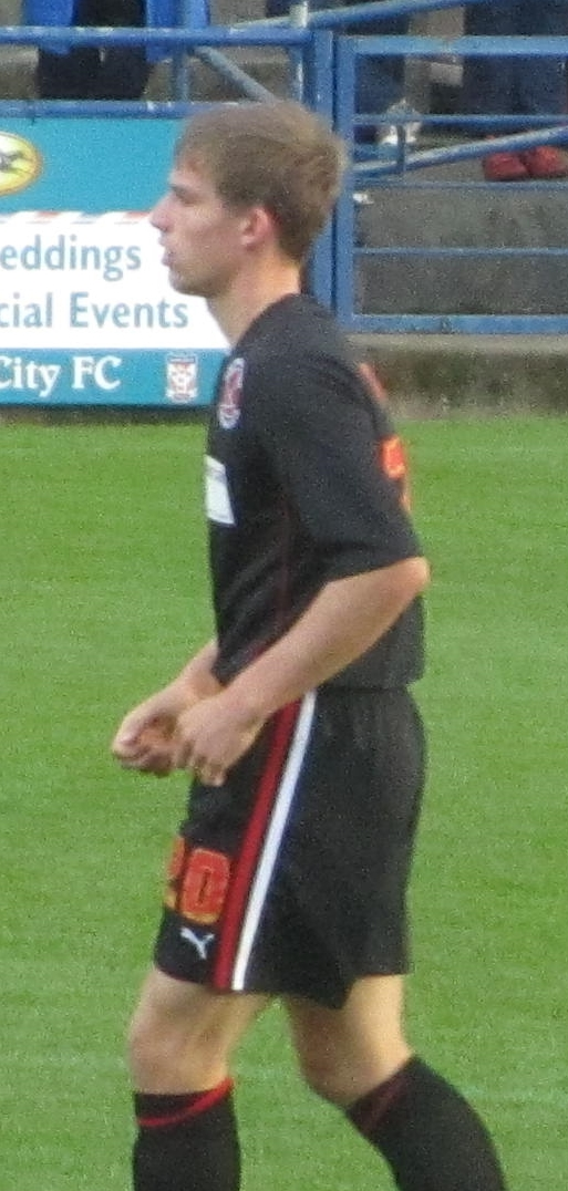 Charlie Taylor playing for Fleetwood Town against York City at Bootham Crescent, York on 26 October 2013